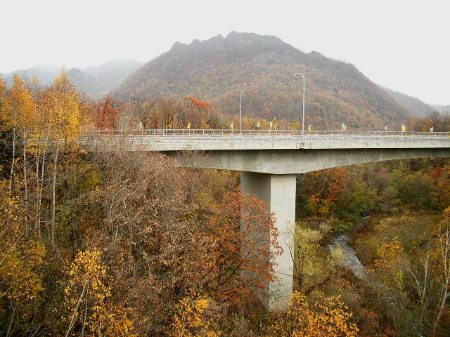 Shin-Ban'nosawa (New Ban'noasawa) Bridge and Mount Kan'non'iwa. Route 230 (National Highway 230) of Japan over Ban'nosawa River. Toyotaki, Minami ward, Sapporo, Hokkaidō prefecture, Japan.